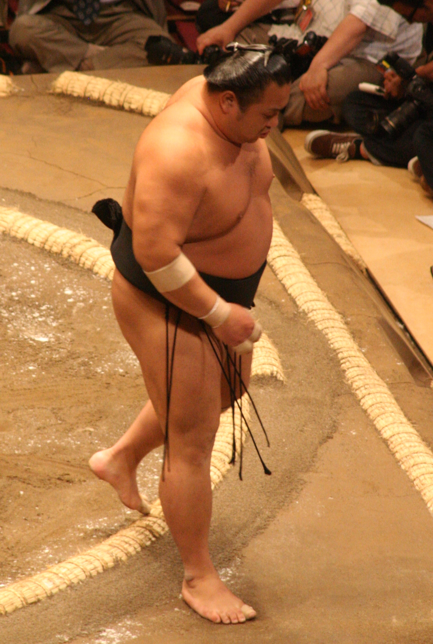 First day of 2009 May Sumo Tournament in Tokyo, Japan - Chiyotaikai